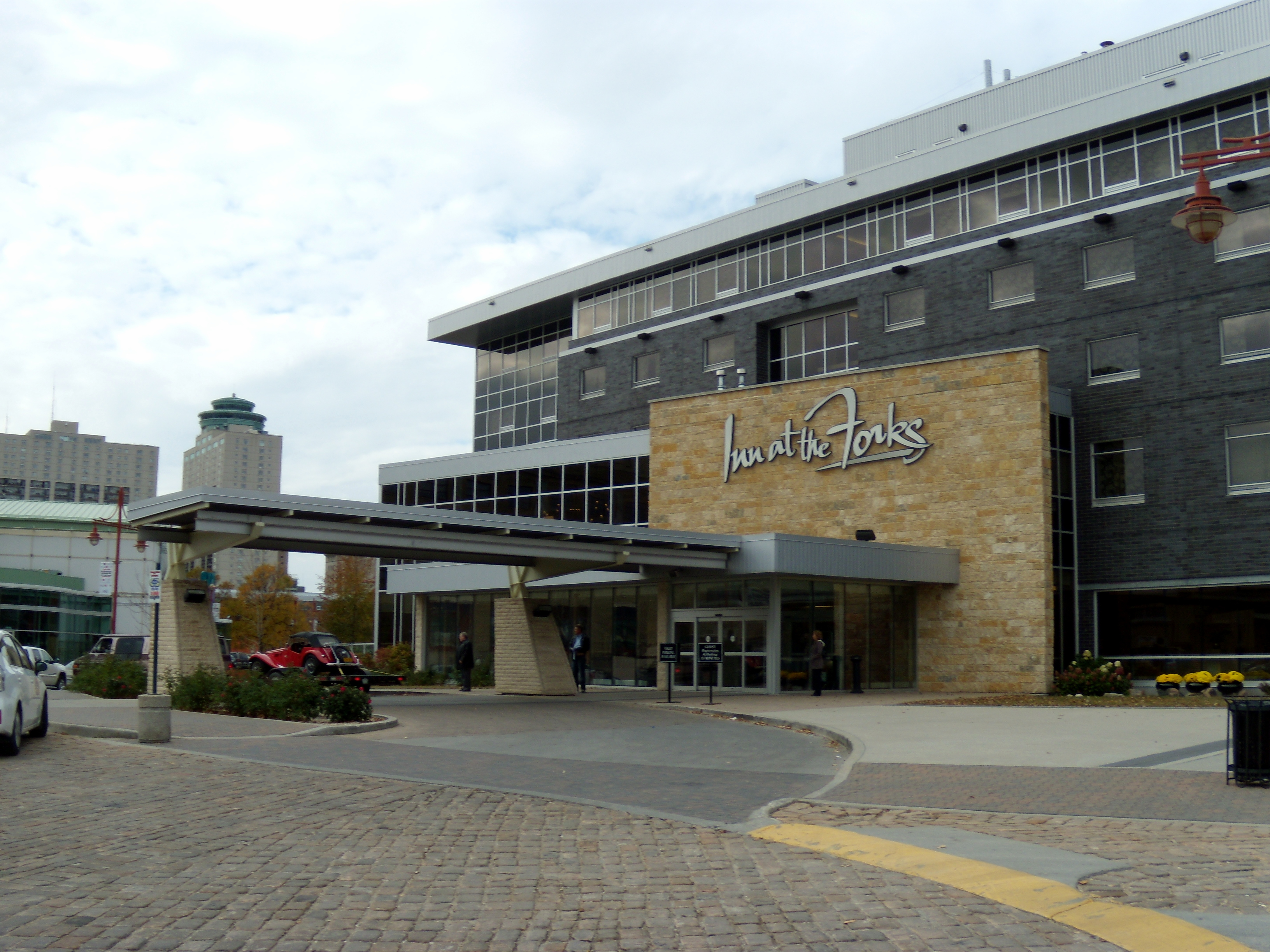 Inn at the Forks in Winnipeg, Manitoba